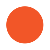 The figure used as a logo by the Art Center College of design.